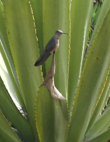 Giant Hummingbird (Patagona gigas) at Mitad del Mundo, N of Quito, Ecuador.